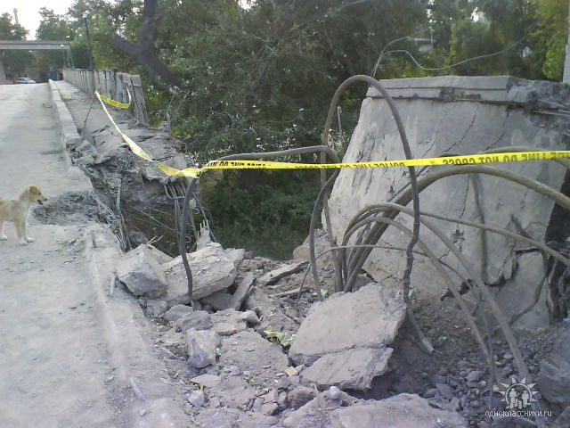 bombing of kaspi